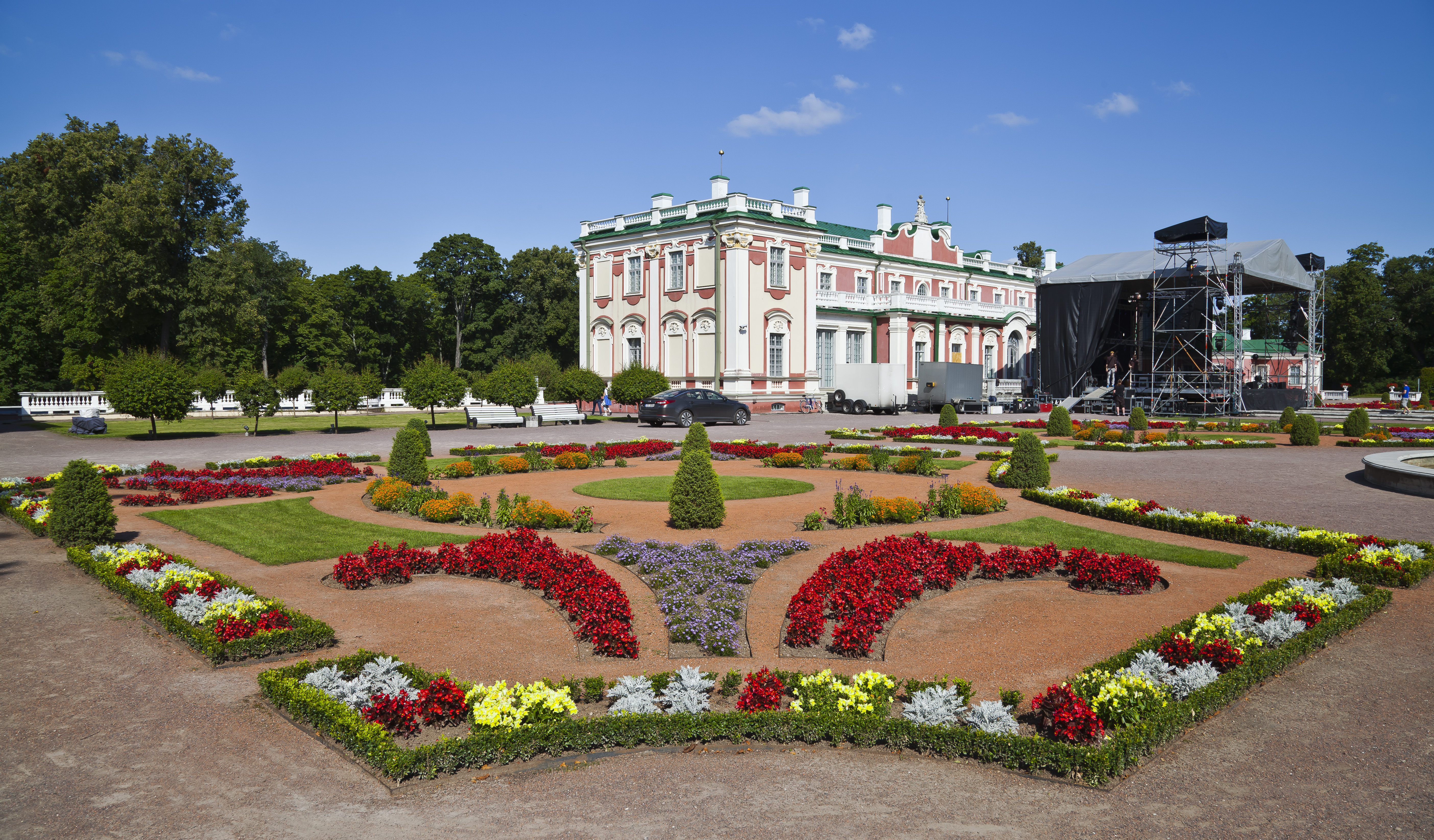 Palace of Kadriorg, Tallinn, Estonia